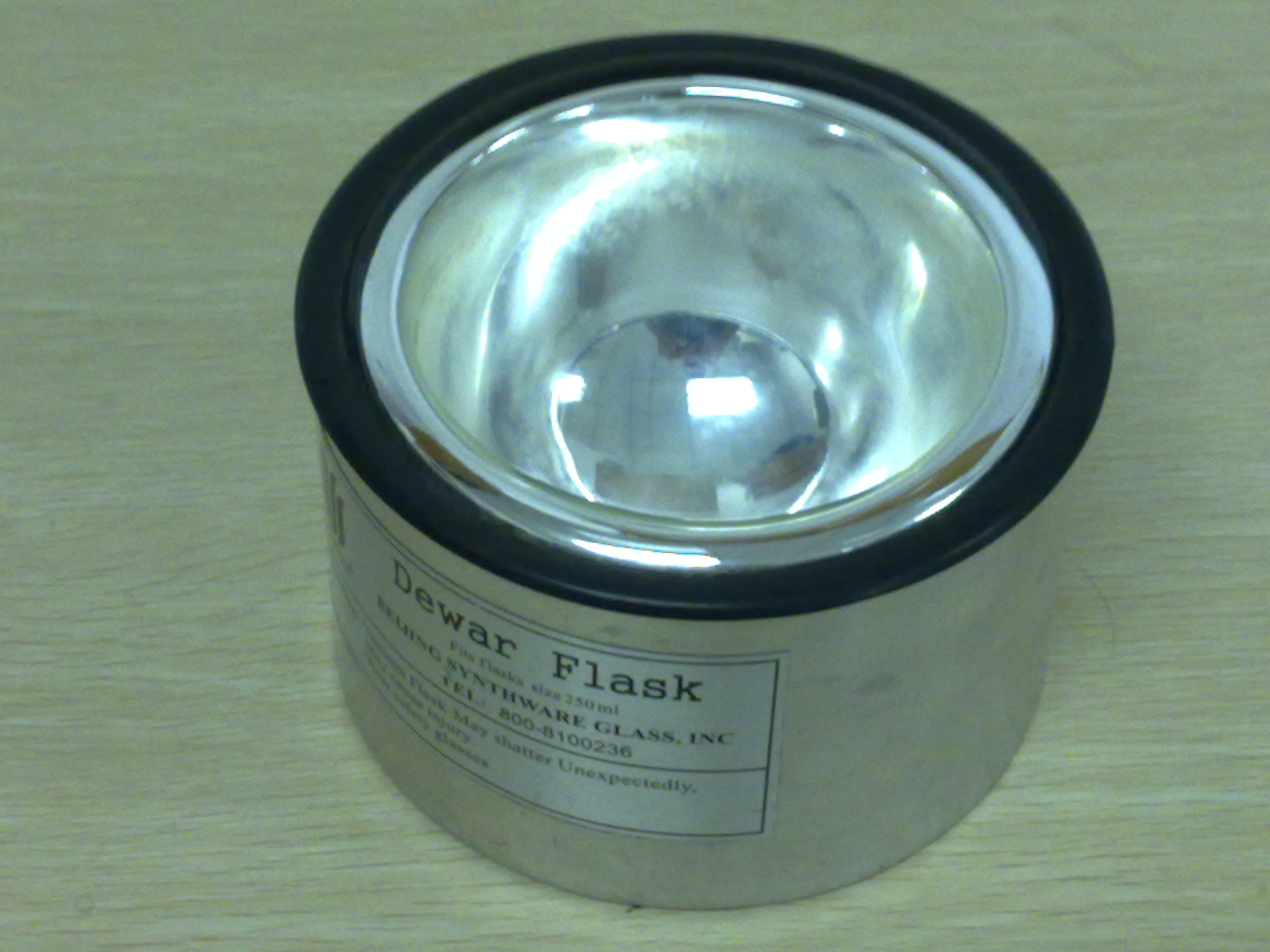 A Dewar flask